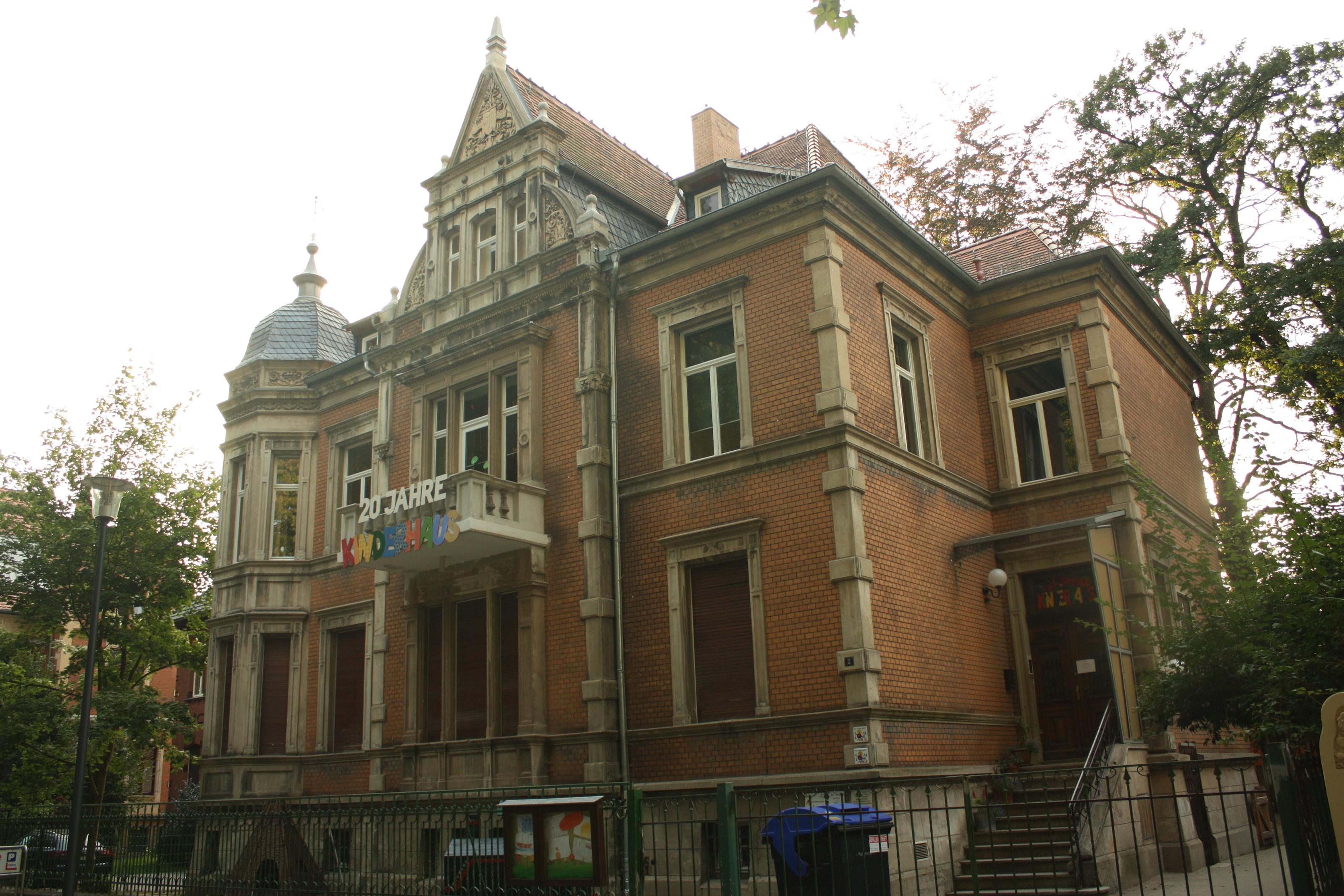 This is a photograph of an architectural monument.It is on the list of cultural monuments of Quedlinburg Brühlstraße 02 (Quedlinburg)